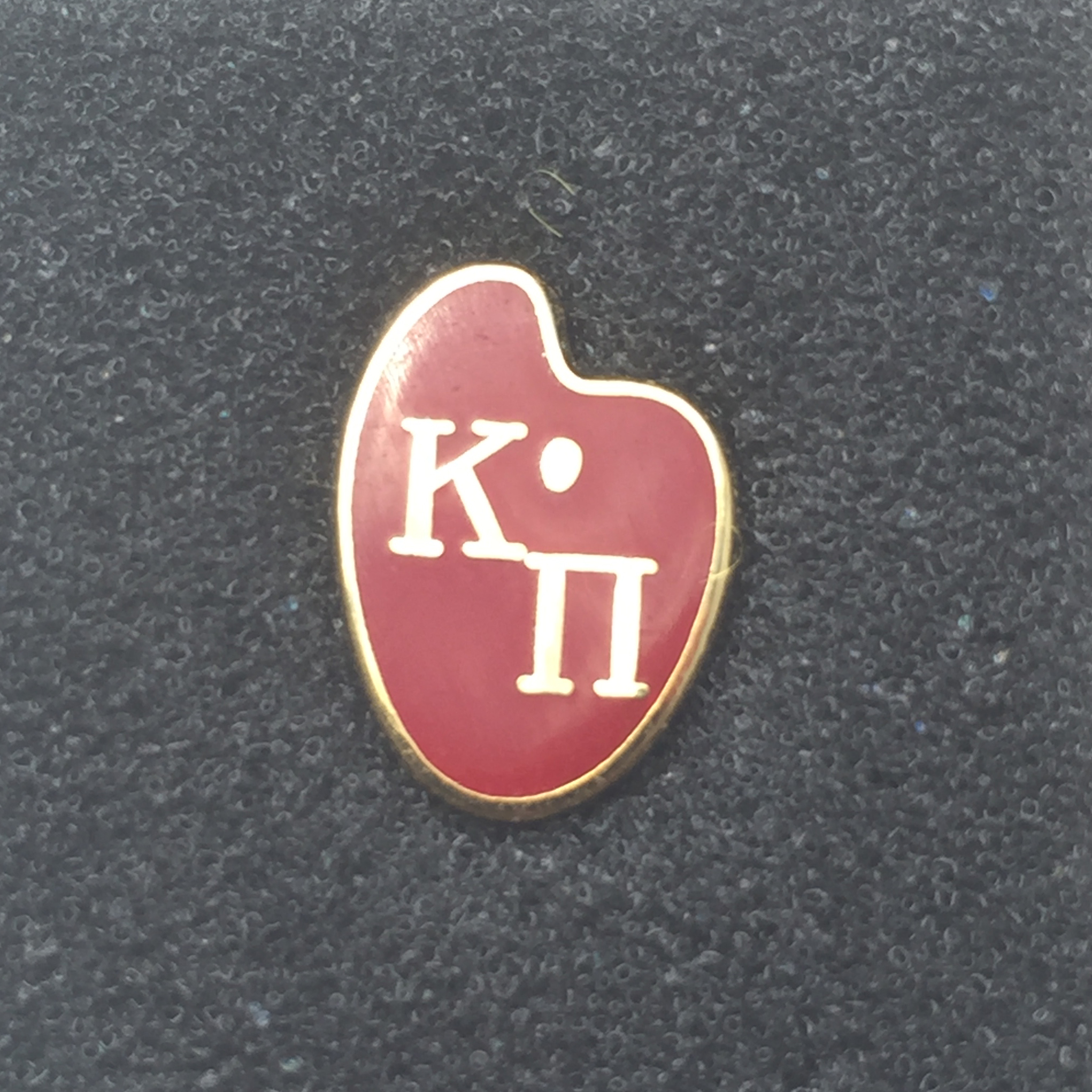 The official member pin of Kappa Pi present at the induction Ritual